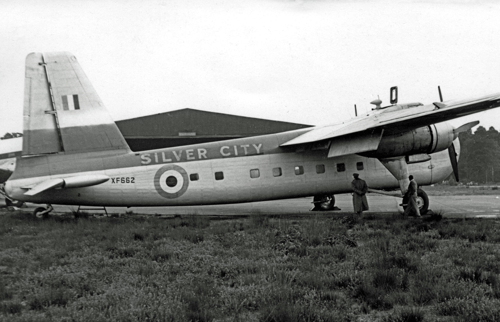 Bristol 170 Series 21 of Silver City Airways in RAF markings as used for freight flights to the Suez Canal Zone